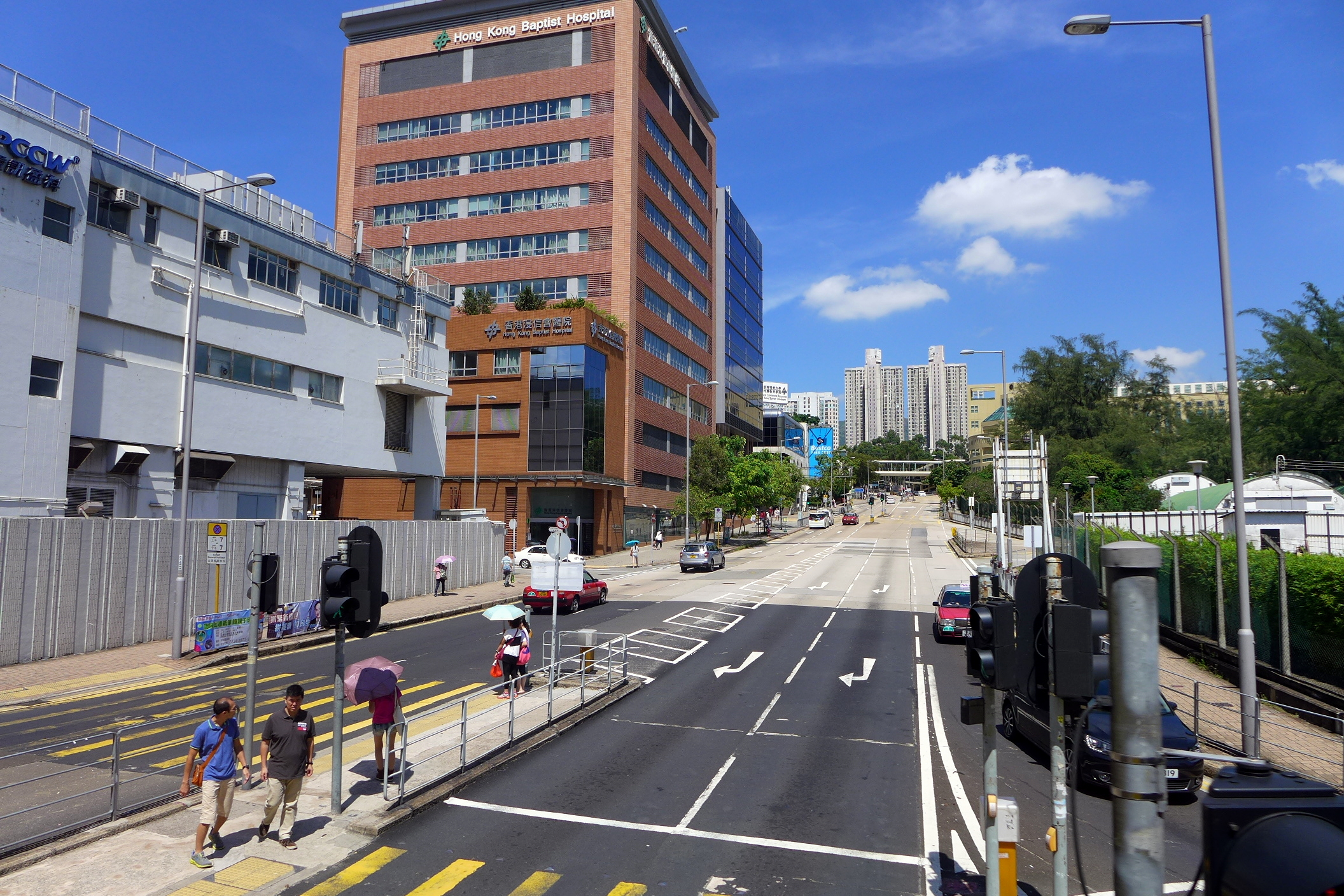 Junction Road